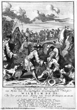 Representation of the fall of William III of England of his horse in 1702